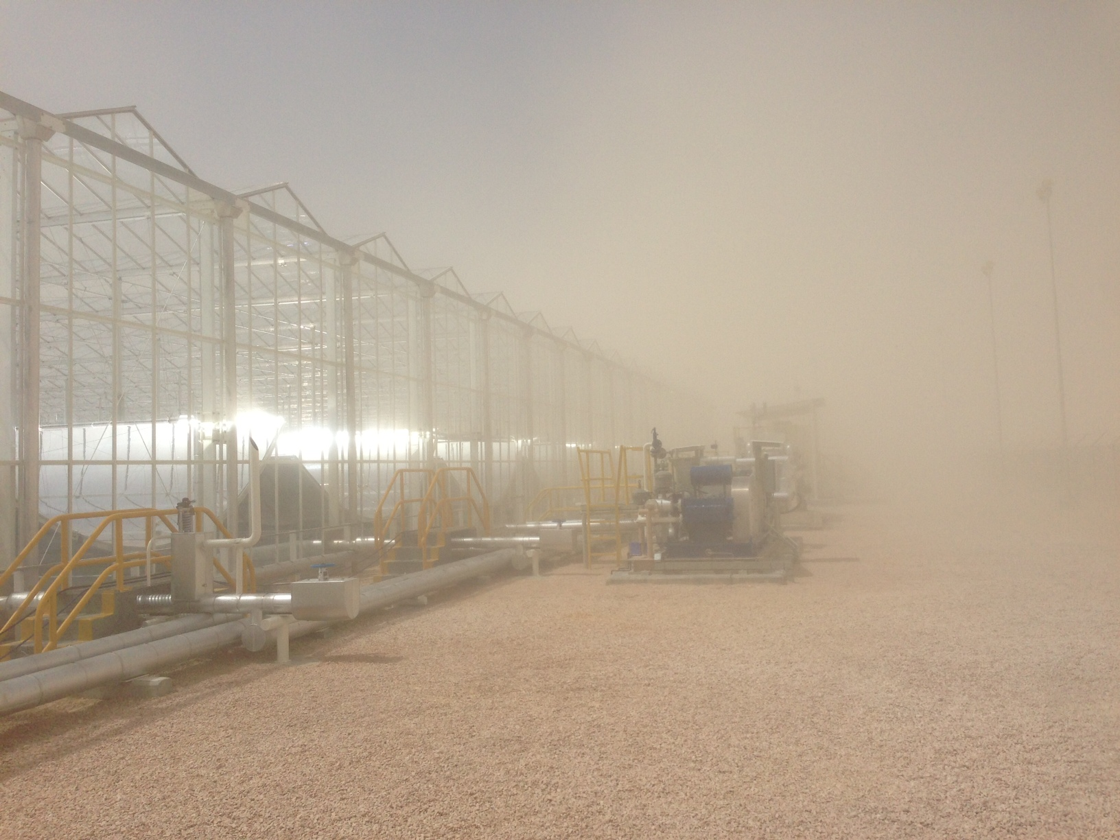 A visual of a solar enhanced oil recovery project in Amal, Oman undergoing a sandstorm.